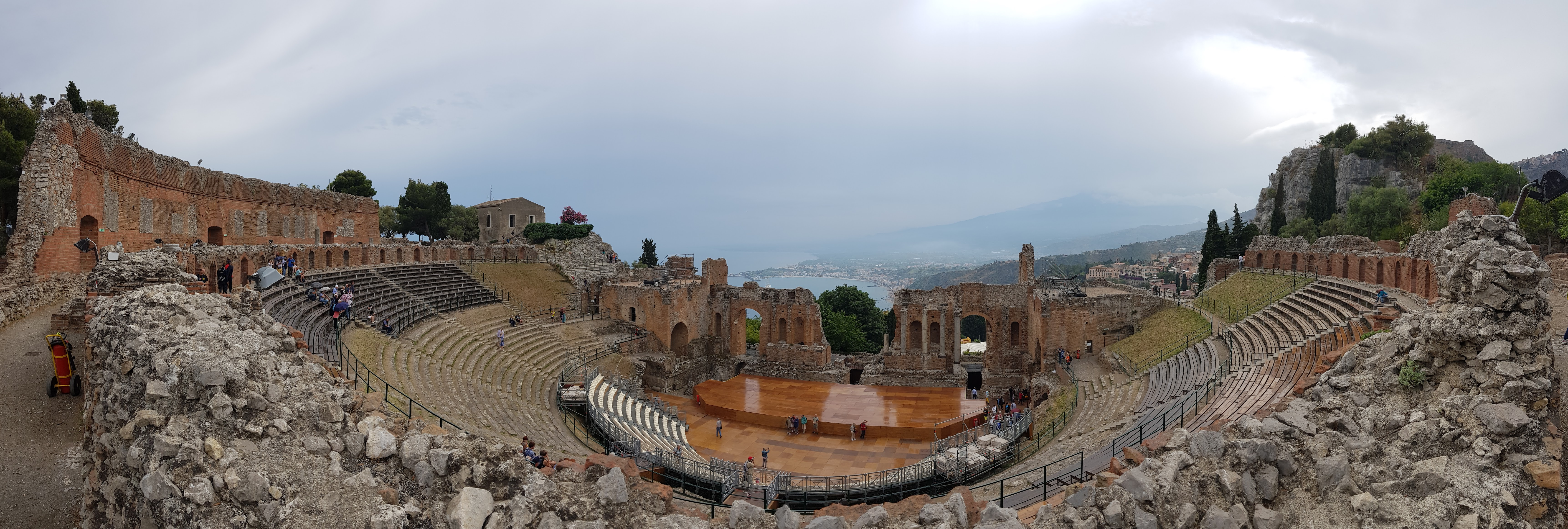 Panoramic view of "Teatro Antico di Taormina"